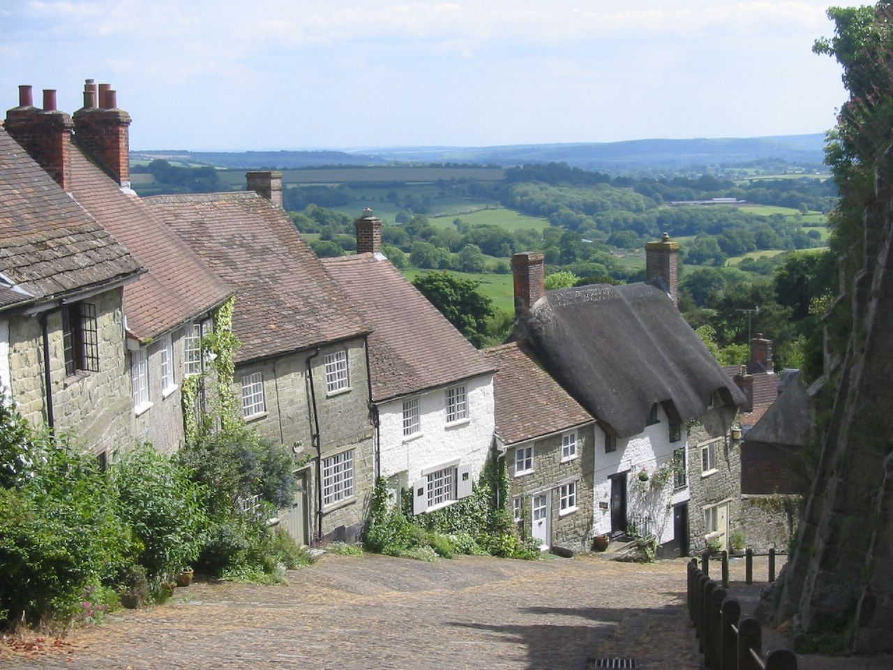 Taken on June 3, 2004 by Sean Davis